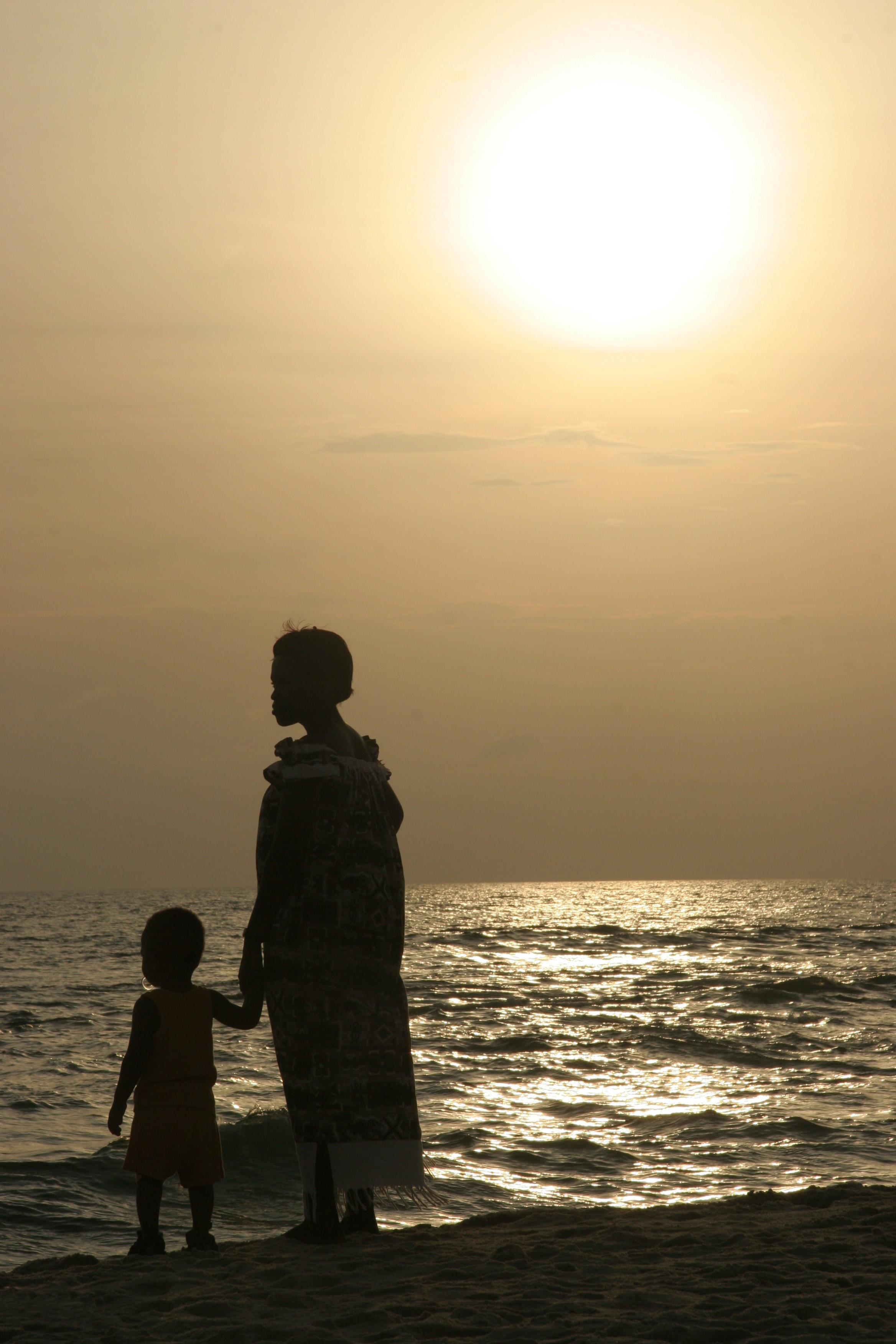 Mother with child at the beach in Pointe Noire, the Republic of Congo. March 2008